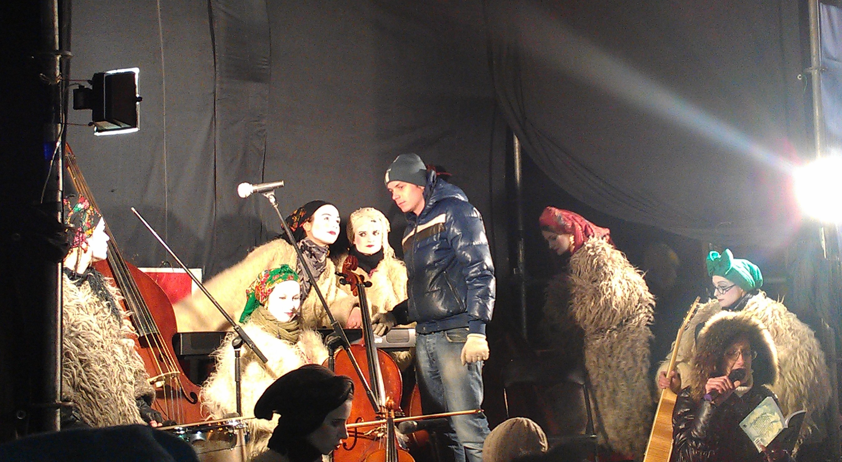 Dakh Daughters band. Soundcheck before the performance at Euromaidan